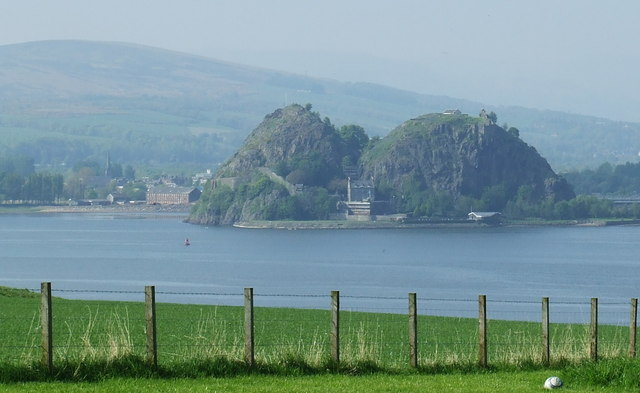 Dumbarton Rock and Castle Prominent volcanic plug, viewed from Old Greenock Road west of Bishopton.